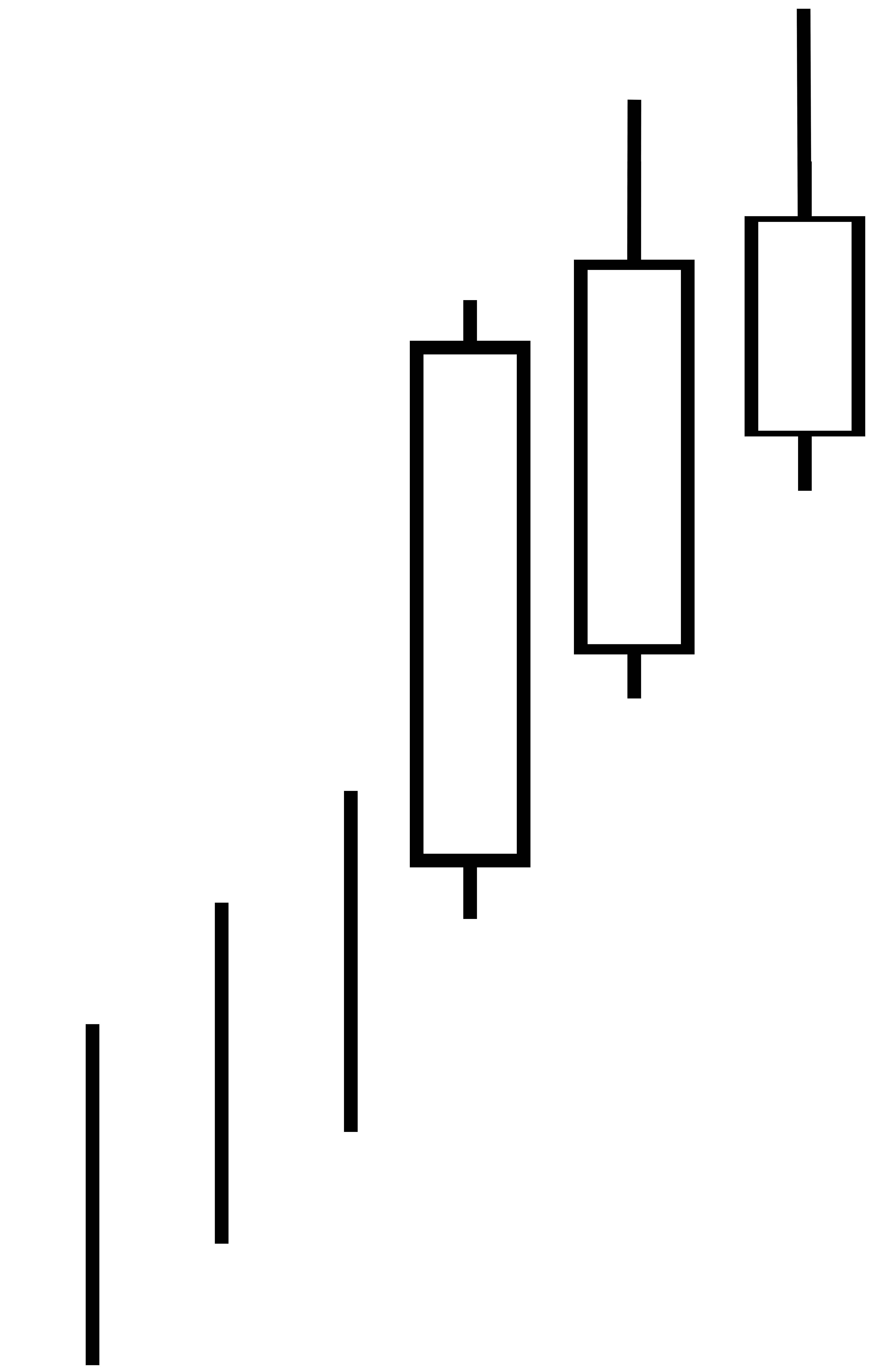 Bearish advance block